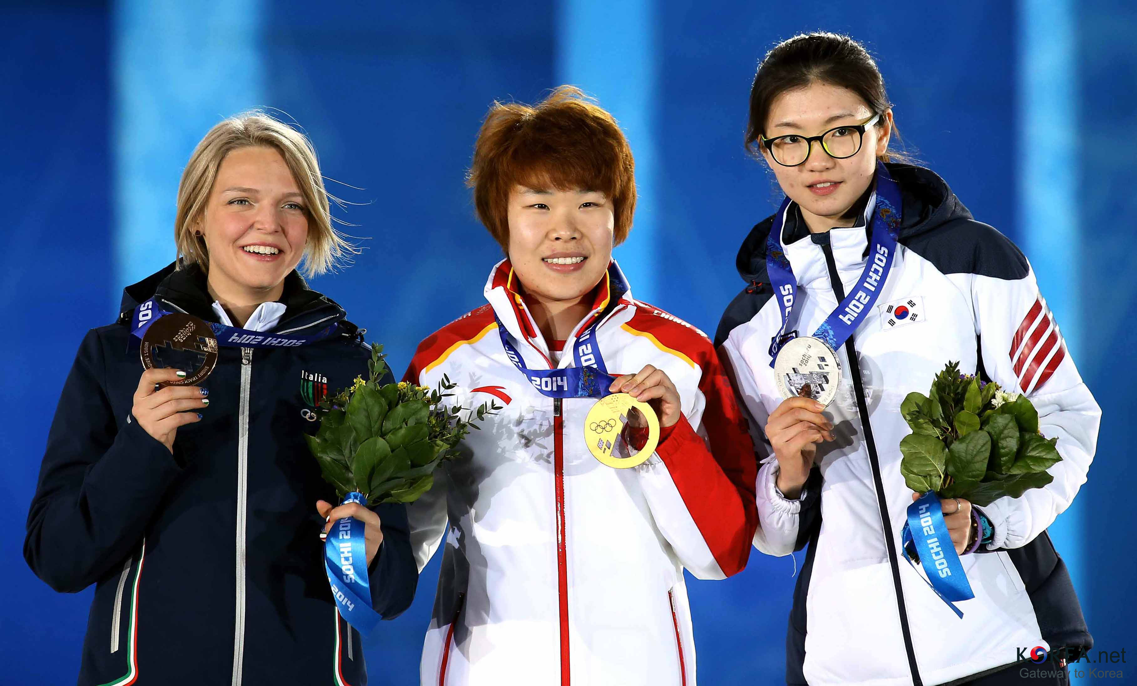 Shim Suk-hee won her first Olympic Medal in Sochi. Iceberg Skating Palace, Sochi, Russia